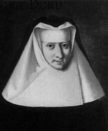 Portrait of Xaveria Gasser, Abbess of the Elisabeth Sisters Convent in Klagenfurt, Carinthia, Austria in 1756. She was elected Superior of monastery six days after the arrival of Maria Anna of Austria on April 19, 1781. In 1792 she wrote the first monastic history of the Klagenfurt Elisabethinen.